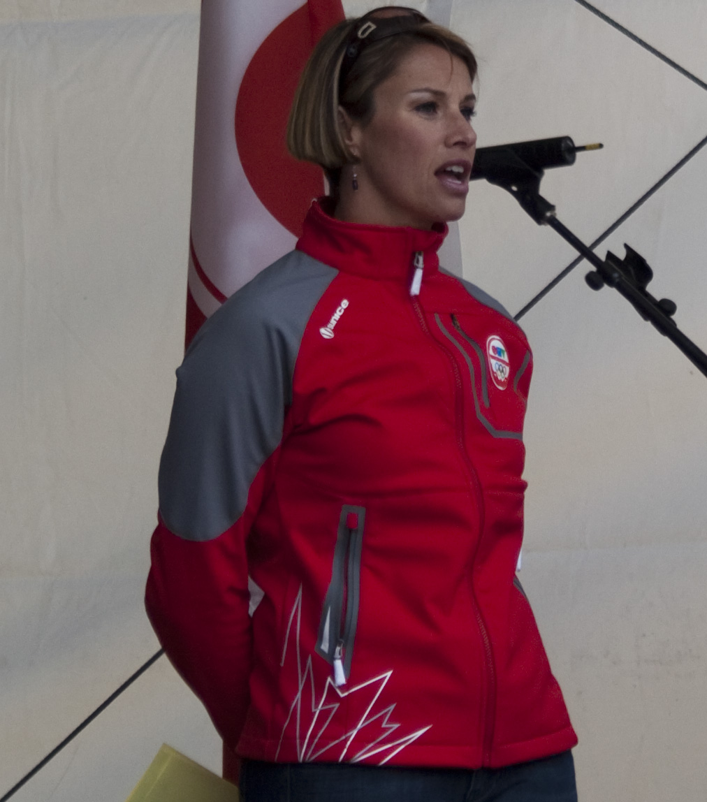 Catriona Le May Doan at a salute to Canadian Olympians and Paralympians with a connection to Alberta, that was put on at the Olympic Plaza in Calgary, Alberta, Canada. She is joining in with the singing of Oh Canada. The photo was cropped to remove other people and distractions.